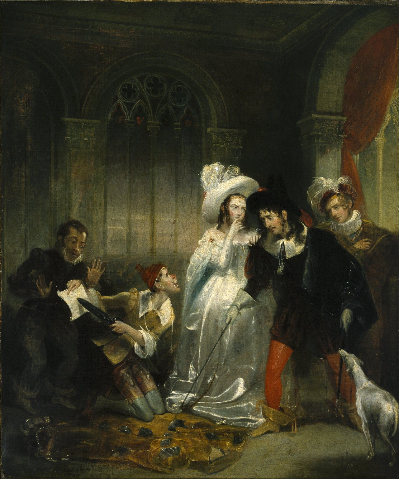 From Act IV, Scene 3 of William Shakespeare's The Taming of the Shrew